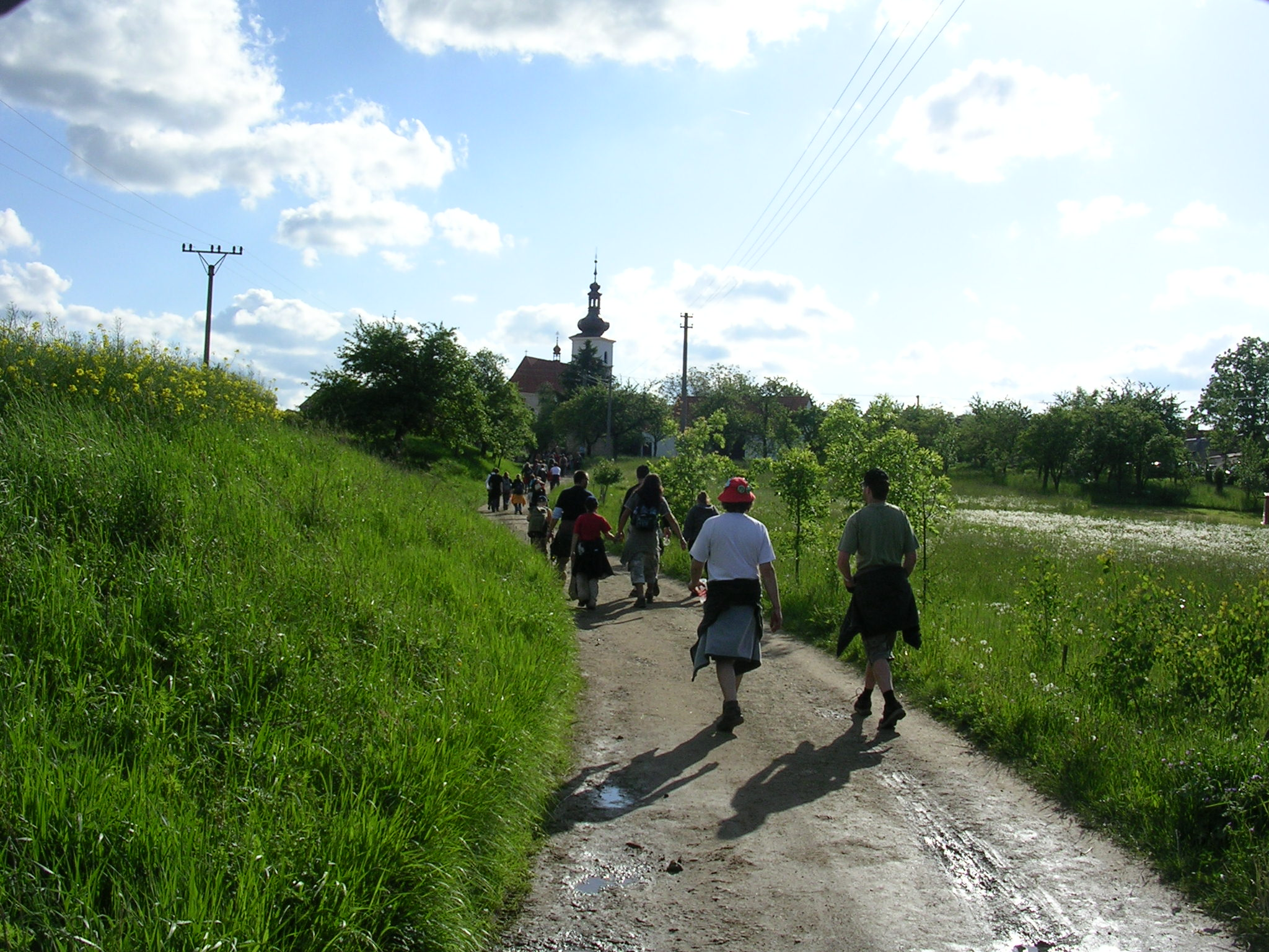 Prčice, Sedlec-Prčice, Příbram District, Central Bohemian Region, the Czech Republic.